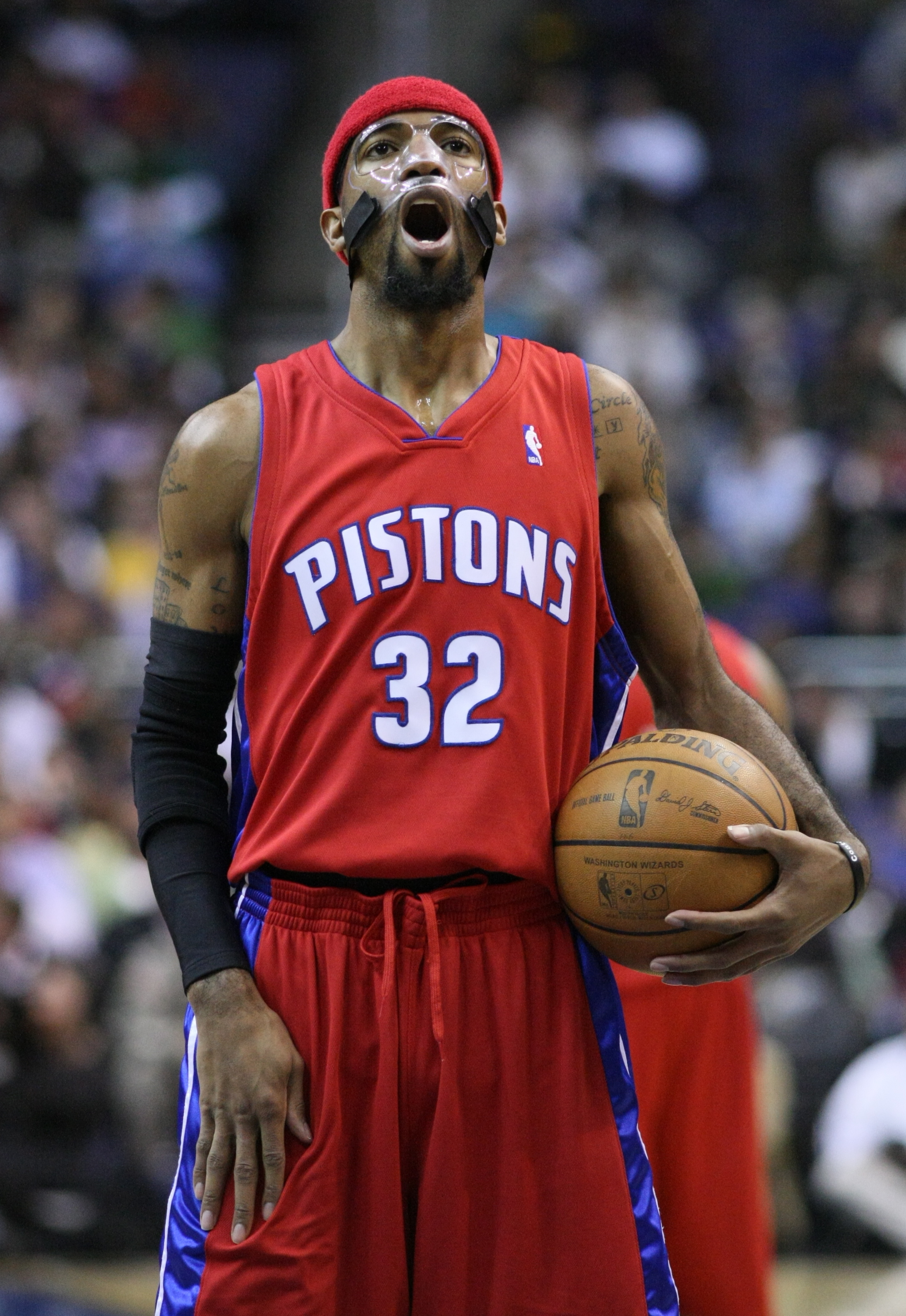 Richard Hamilton, of the National Basketball Association's Detroit Pistons, during a 2008 basketball game against the Washington Wizards.